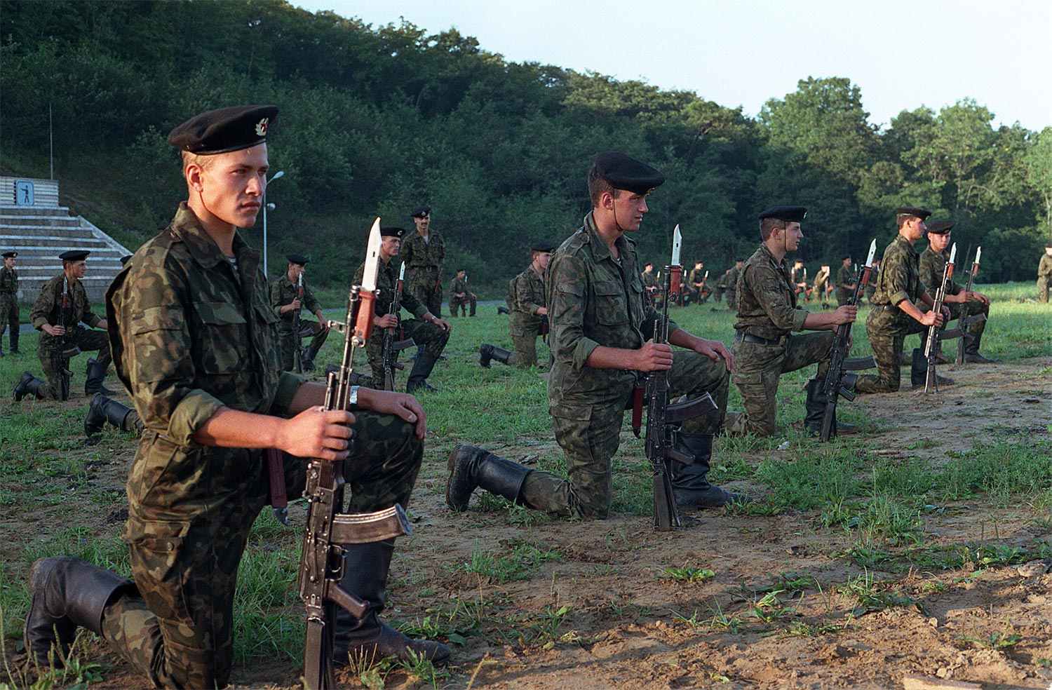 Soviet naval infantryman kneel with their AKS-74 rifles during a demonstration conducted for visiting U.S. Navy personnel. Two American ships, the guided missile cruiser USS PRINCETON (CG-59) and the guided missile frigate USS REUBEN JAMES (FFG-57), are in Vladivostok for a four-day goodwill visit.